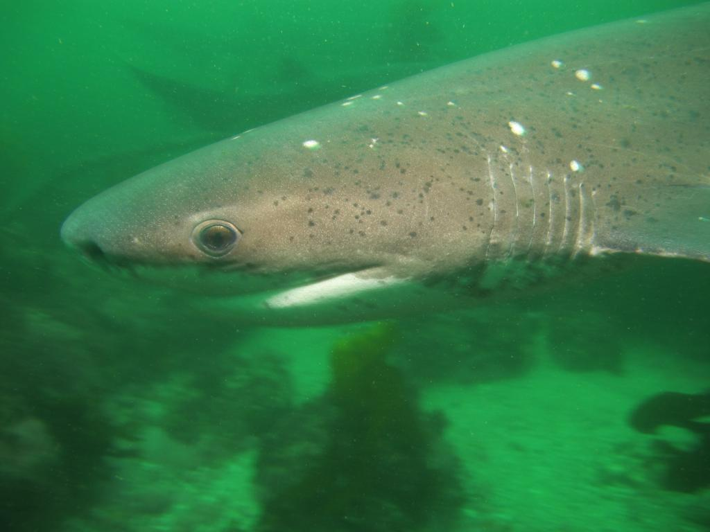 Broadnose sevengill shark (Notorynchus cepedianus) in False Bay